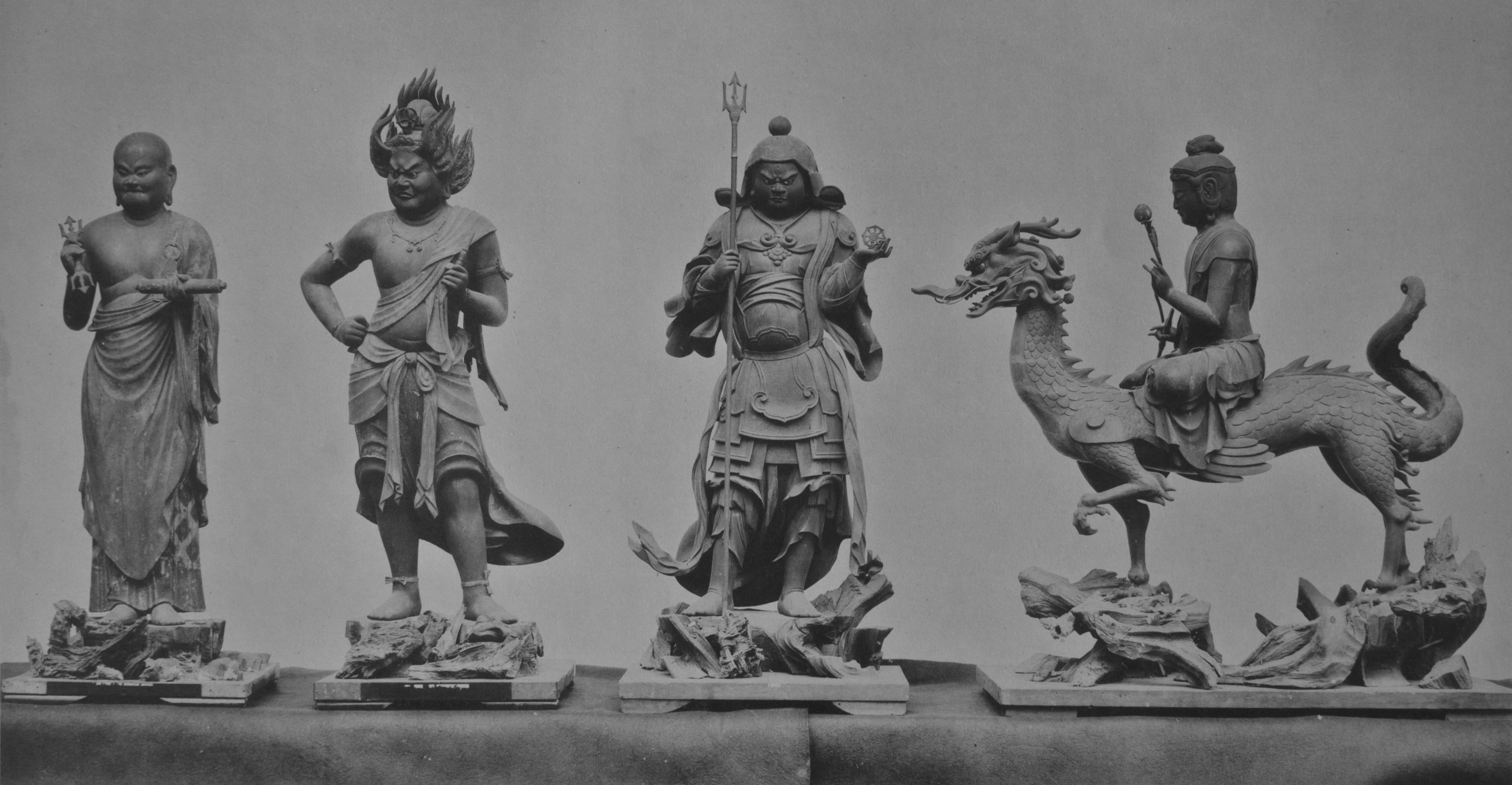 Kongobuji, Wakayama, Japan